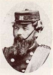 William Kingston Flesher in uniform of a captain of the 31st Grey Regiment militia, taken in 1866 in Niagara-on-the-Lake, Ontario, Canada. Flesher (June 10, 1825 – July 22, 1907) was surveyor and settler of southwestern Ontario, a militia officer, businessman and political figure. As well as founding the village of Flesherton, he represented the riding of Grey East in the Canadian House of Commons as a Conservative member from 1872 to 1878.